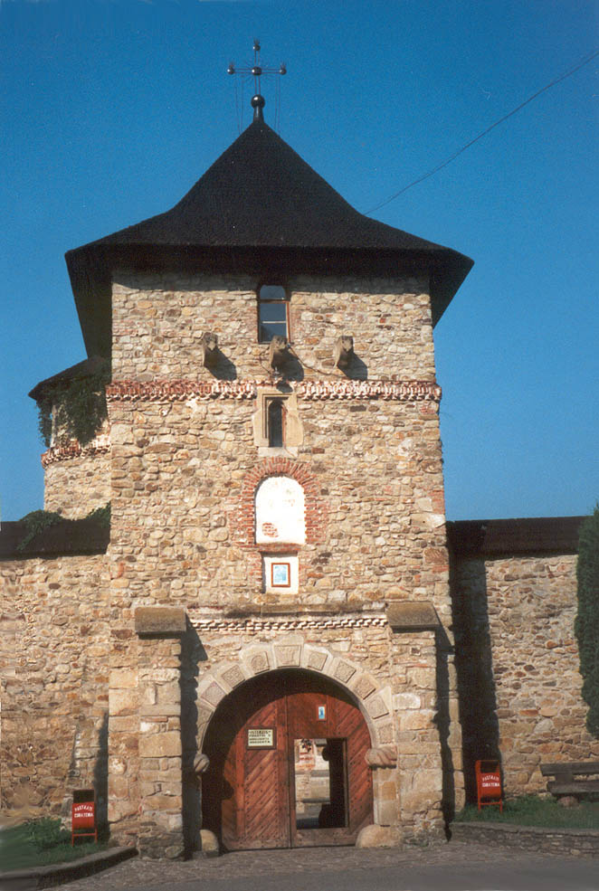 gate of the monastery